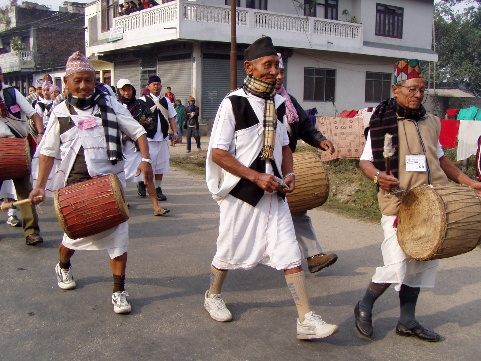 Musicians in Nepal